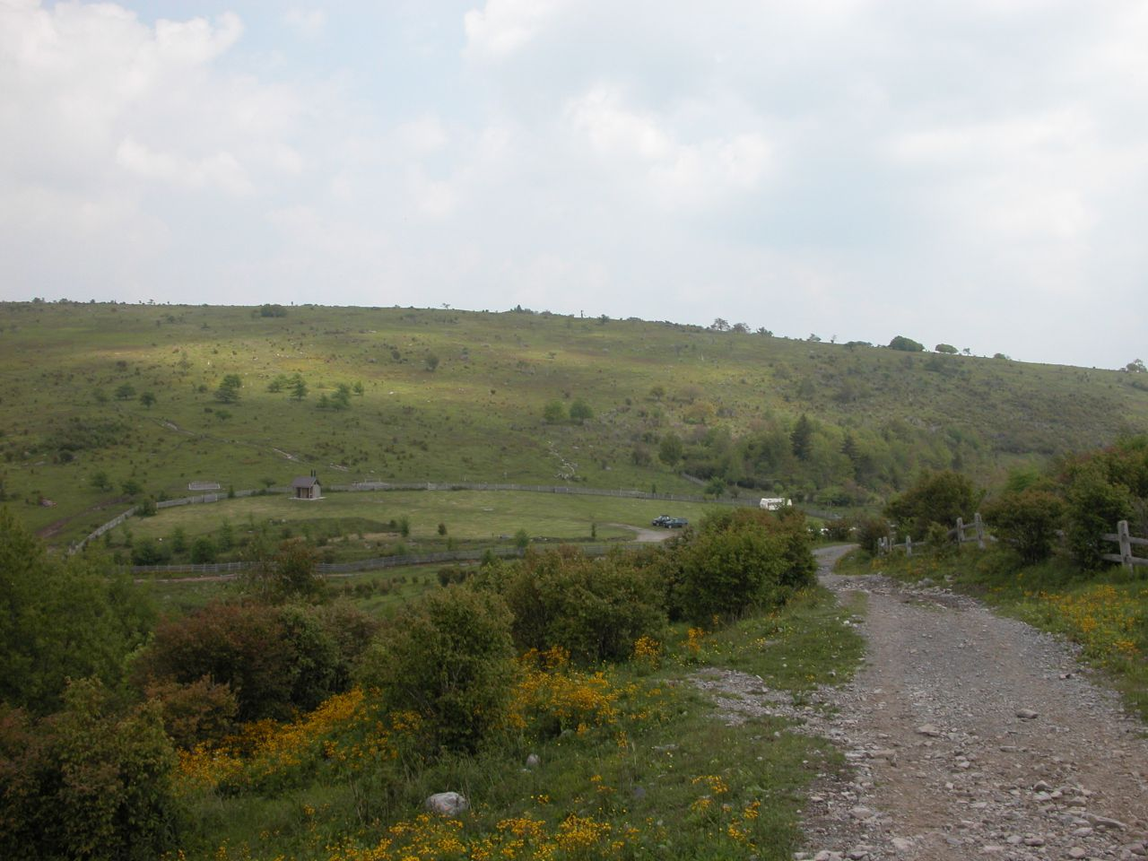 Scales from the Virginia Highlands Trail, near Mount Rogers,Virginia